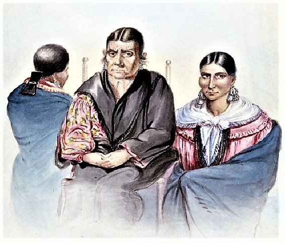 Frances Slocum and daughters, two daughters, Kekenakushwa (Cut Finger) (1800–1847) and Ozahshinquah (Yellow Leaf) (ca. 1809–1877). Ozahshinquah, who refused to look at Winter's original sketch, appears on the left with her back to the artist, a common Indian practice.